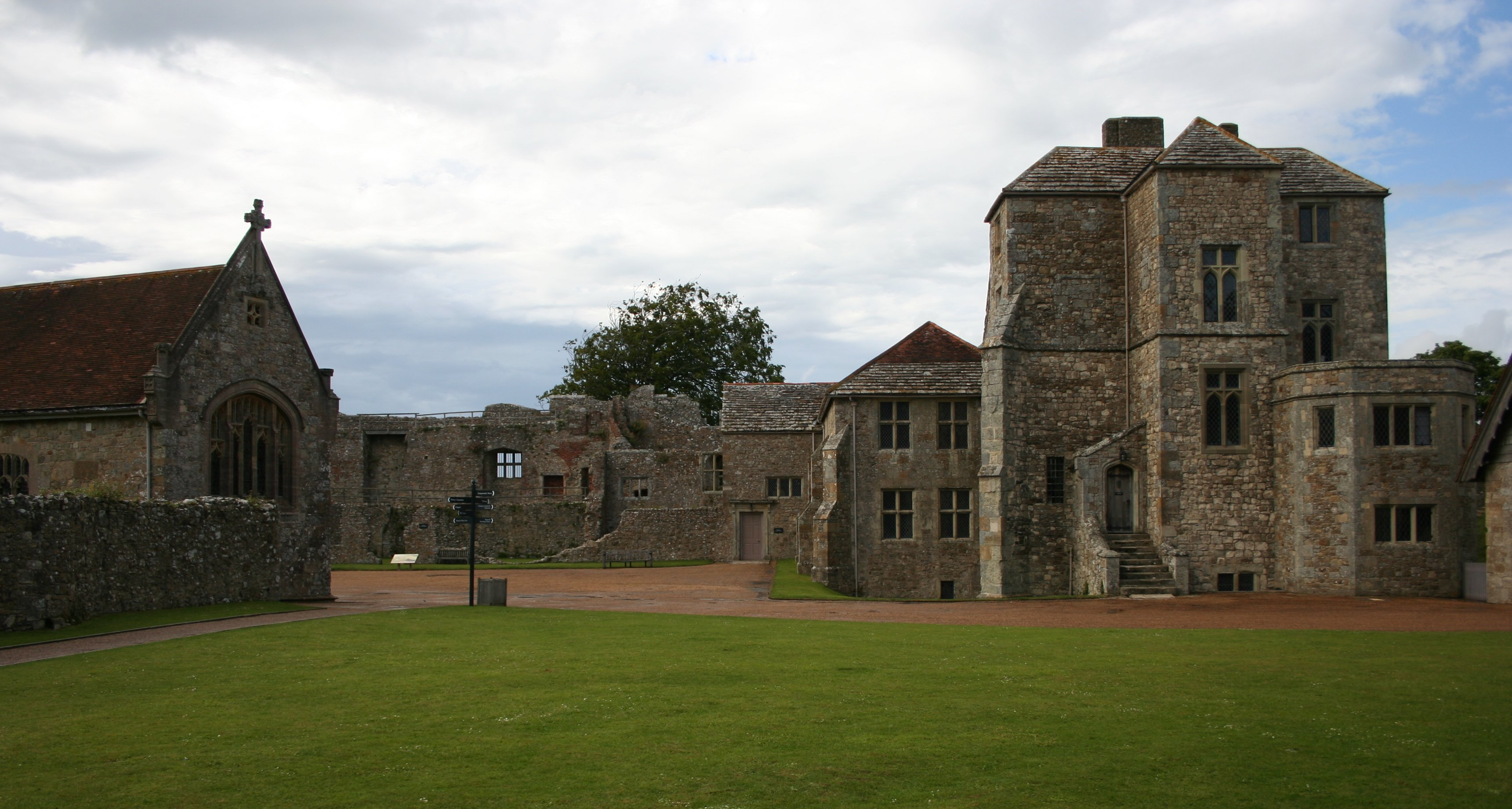 Grounds of Carisbrooke Castle. The chapel is in the left of the picture.